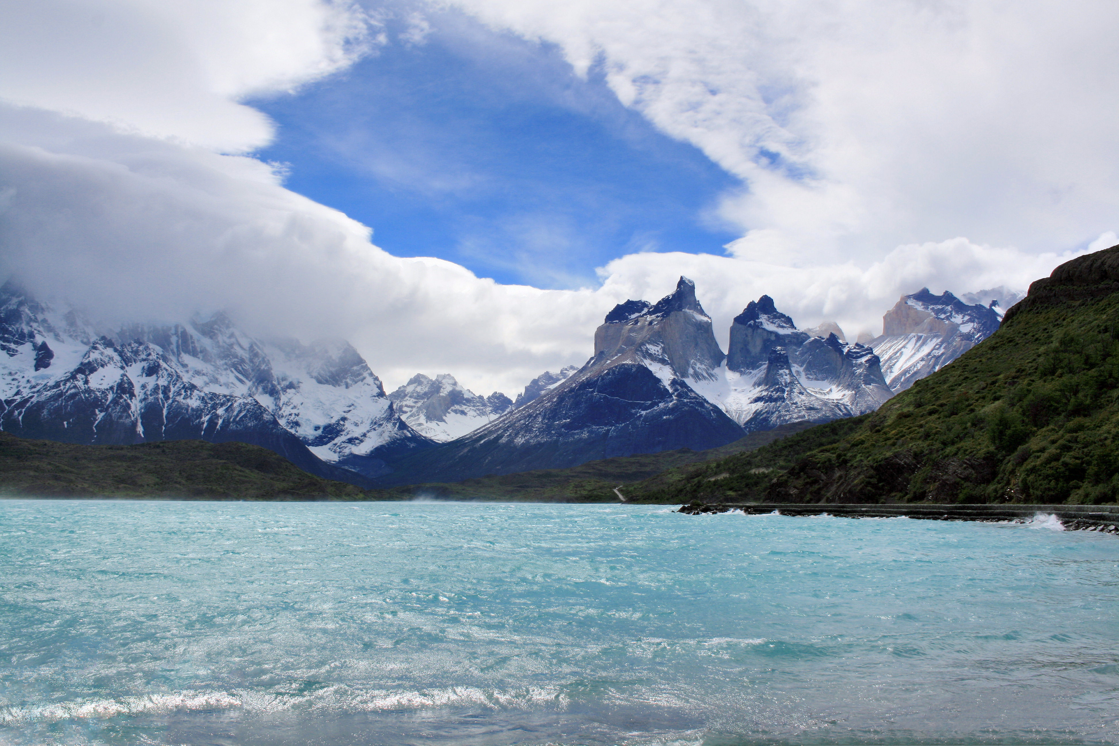 Cuernos del Paine, Torres del Paine National Park, Chile